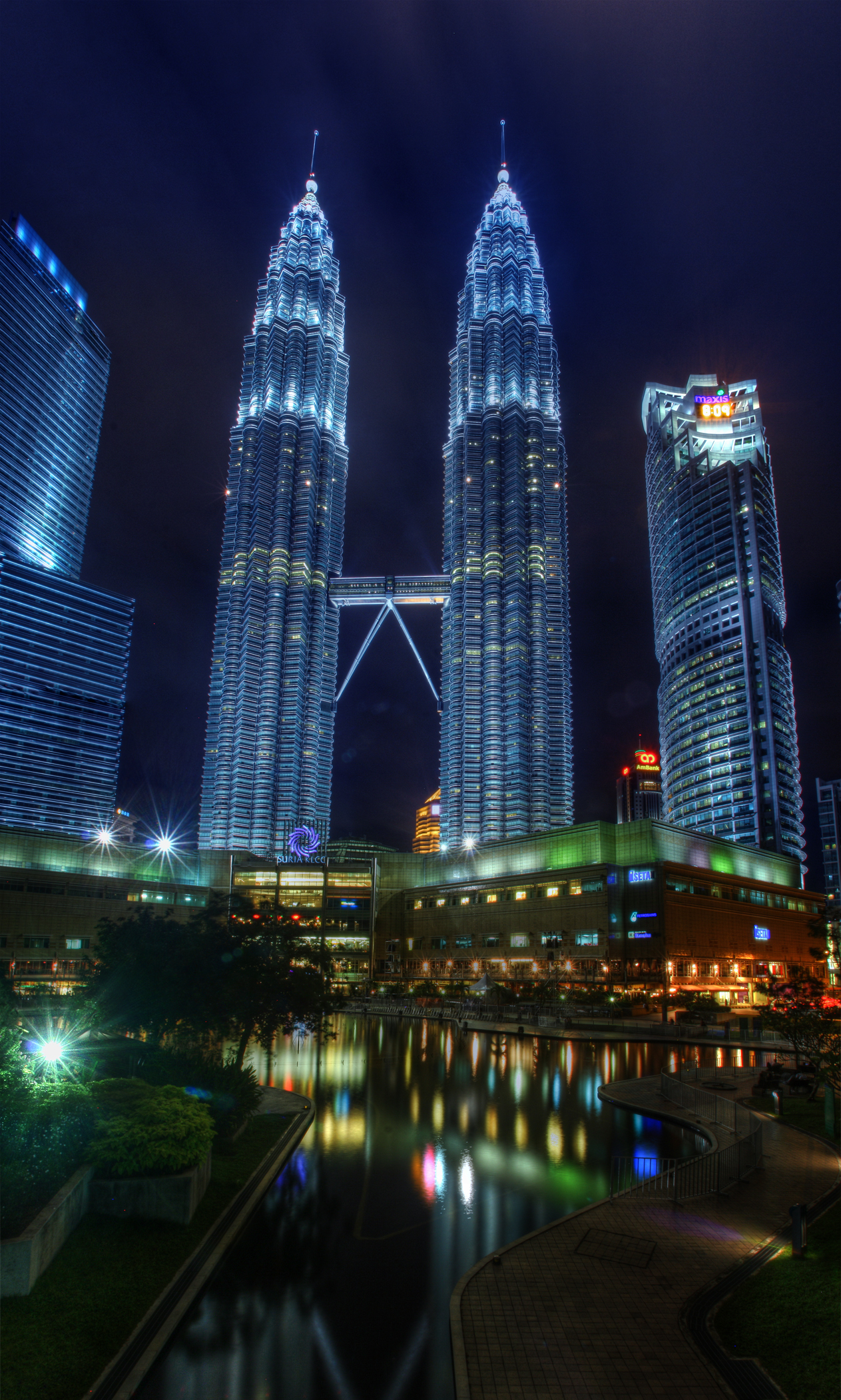 The Petronas Twin Towers & KLCC Park at night